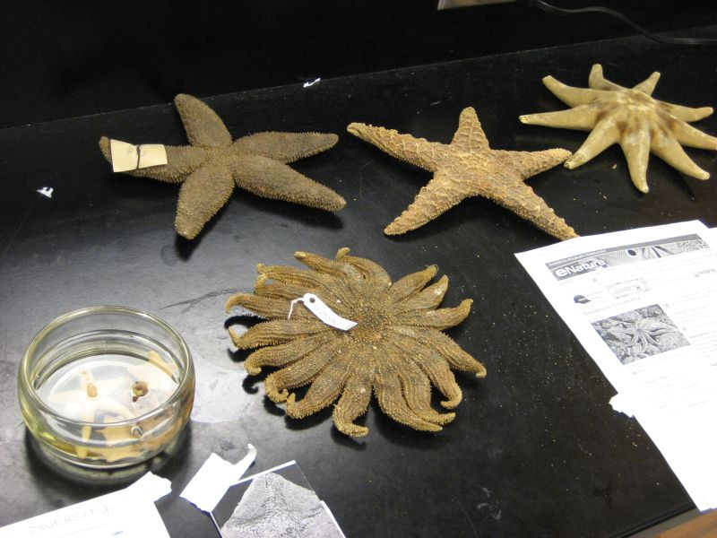 starfish diversity